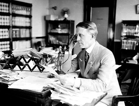 U.S. Railroad Labor Board member and former Tennessee governor Ben W. Hooper (1870–1957) in his office in Chicago. DN-0074689, Chicago Daily News negatives collection, Chicago History Museum.